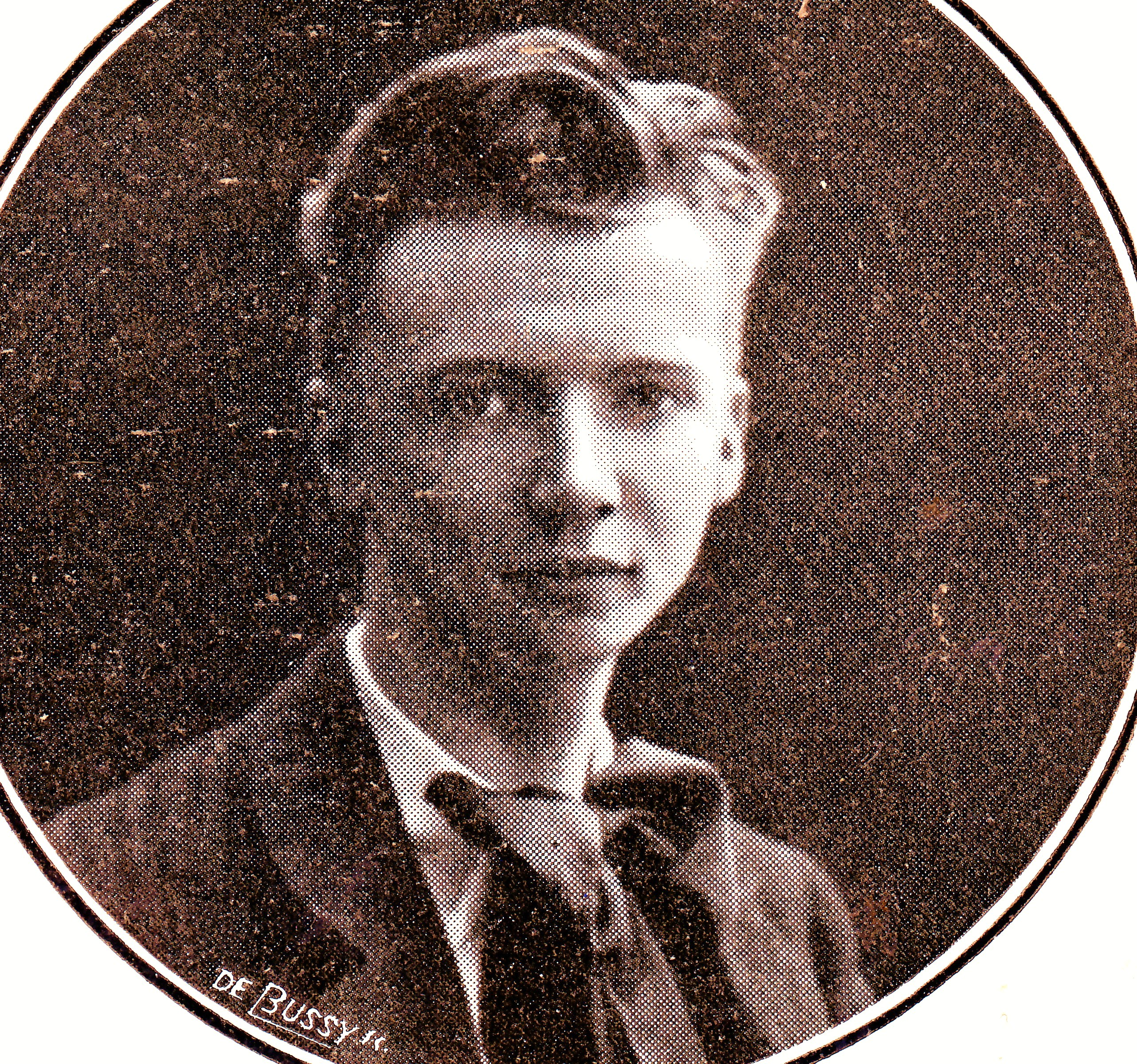 Willem Andriessen in 1908